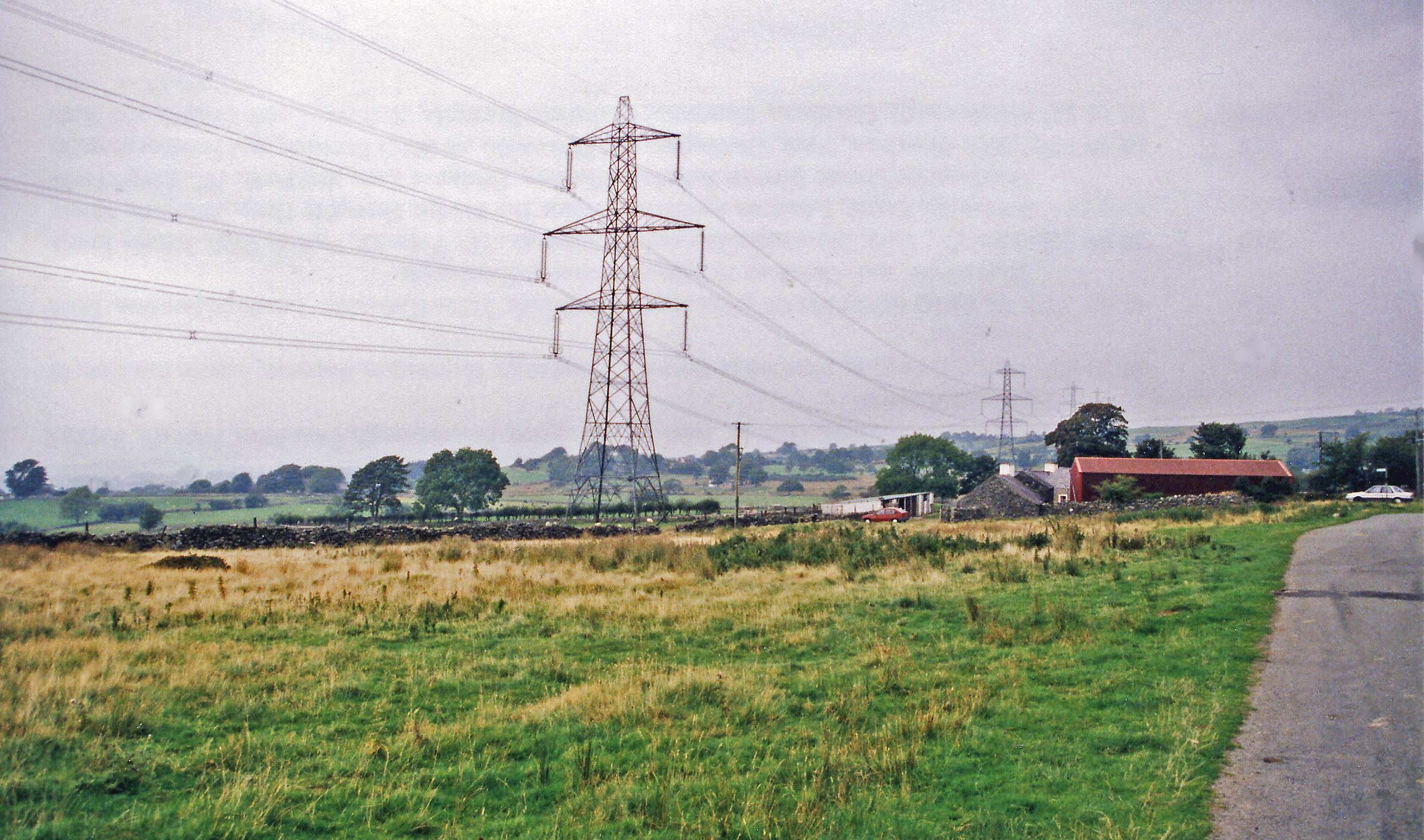 Site of Bryngwyn station, North Wales Narrow-Gauge Railway. View northward, towards Tryfan and Dinas Junction. There was nothing whatever to be seen of a railway, so location may not be exactly right. As the line has been closed from Tryfan since 1922, this perhaps not surprising. (In 1999, the new 'heritage' Welsh Highland NG line from Caernarfon through Dinas to Tryfan, Rhyd-ddu and Beddgelert was already partly built).